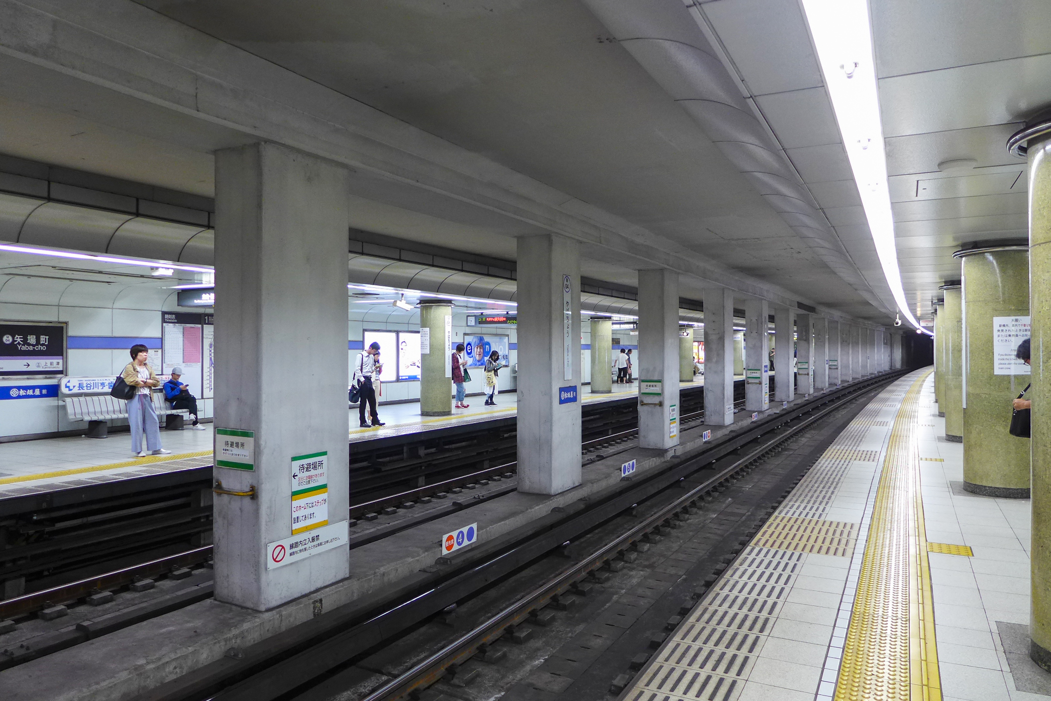 Yabacho Station Platform